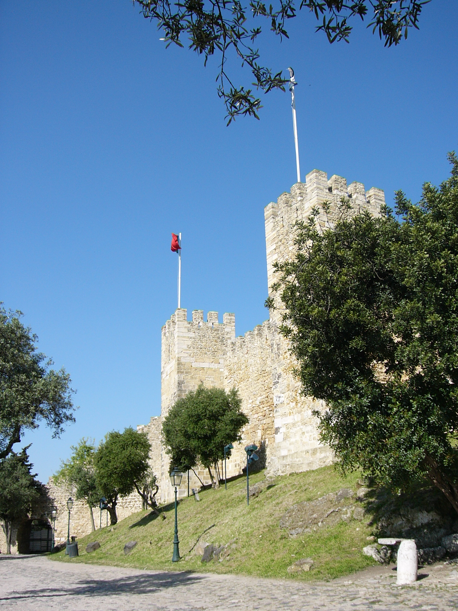 The Saint George castle in Lisbon, Portugal